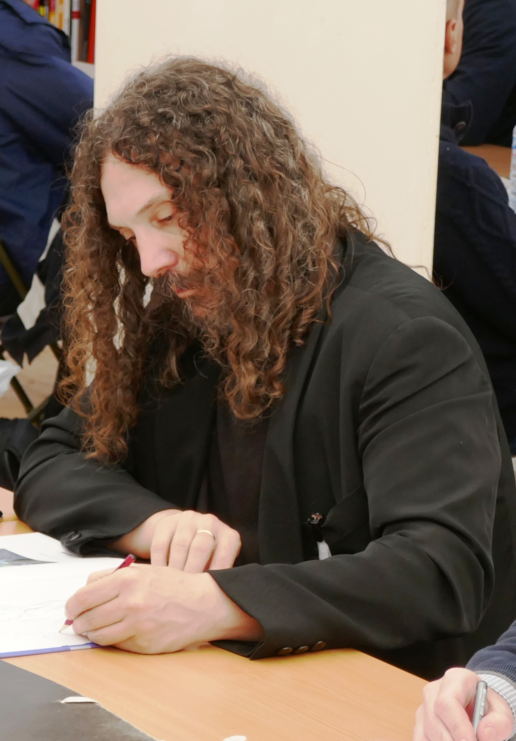 Dragan de Lazare at Festival de la BD de Buc 2016